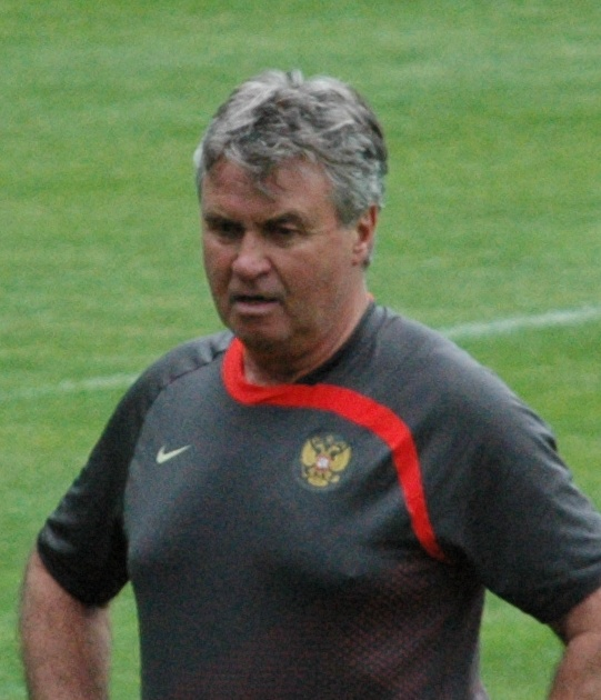 Guus Hiddink as head coach of Russia at EURO 2008